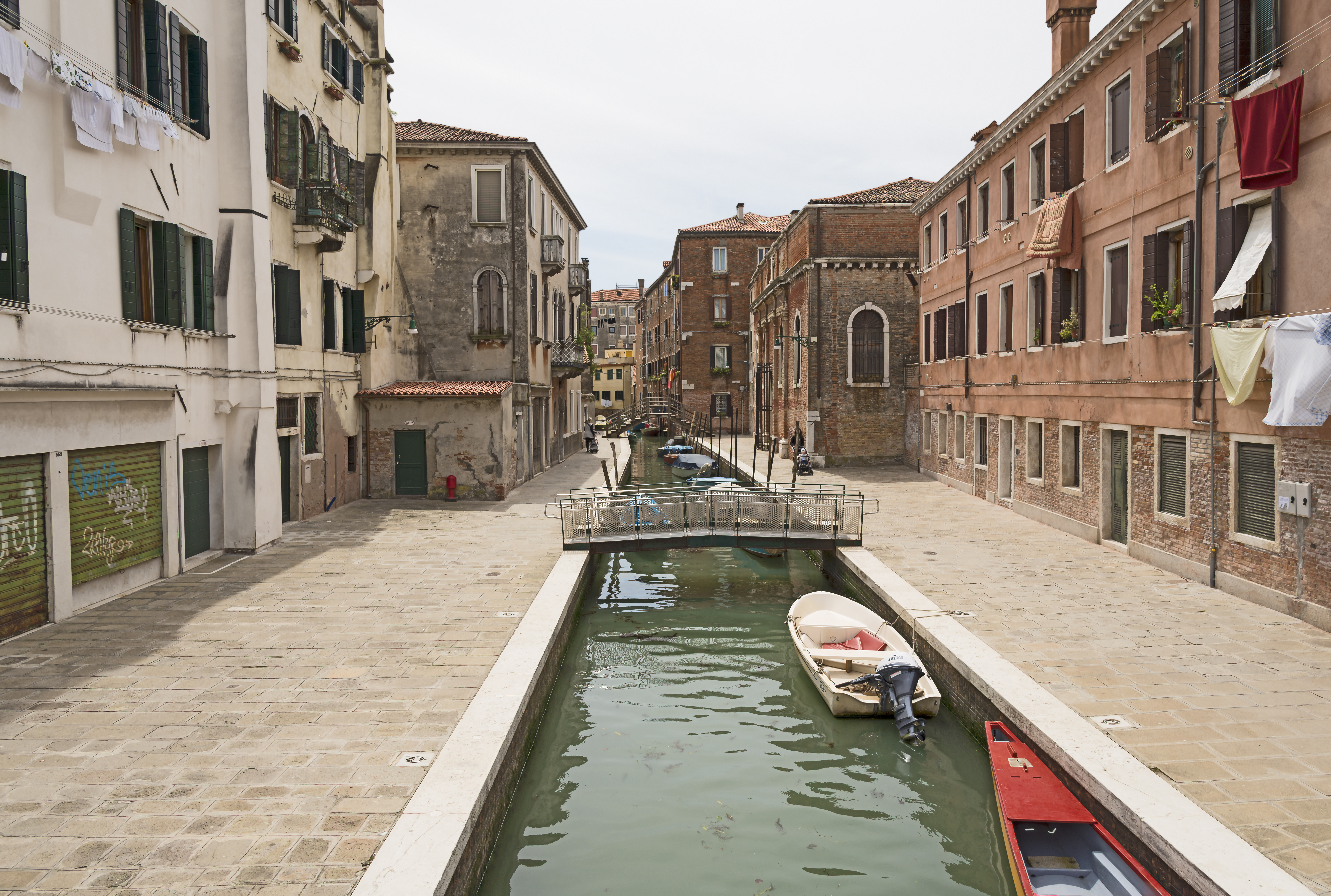 Rio de la Crea view from Ponte de la Crea, in Venice